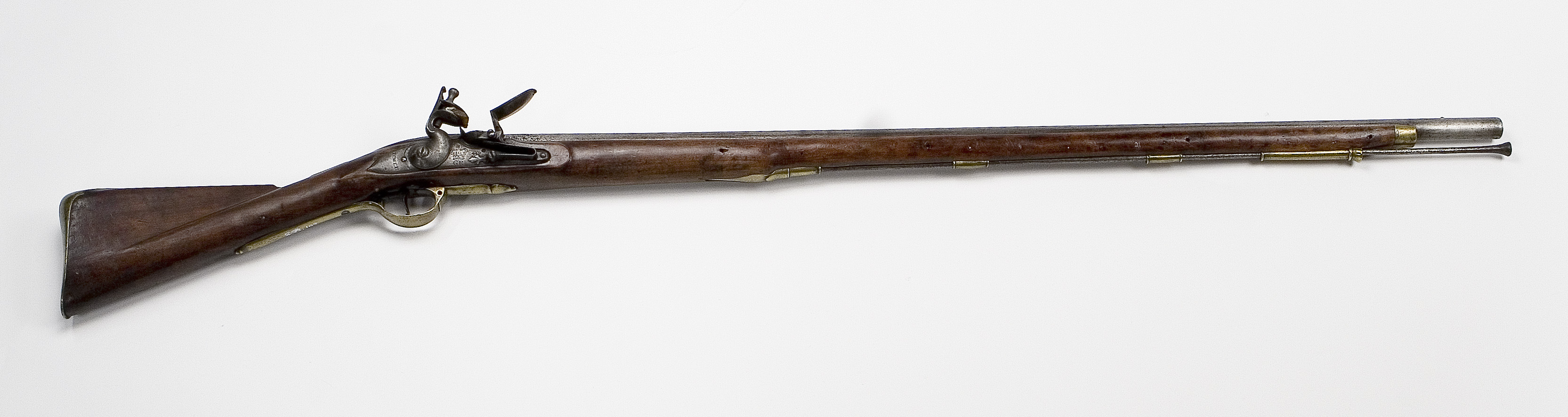 A British military short land pattern musket, more commonly referred to as a Brown Bess, used by Thomas F. Bates in the American Revolution and by his son, Edward Bates, in the War of 1812.Title: British Military Short Land Pattern Musket